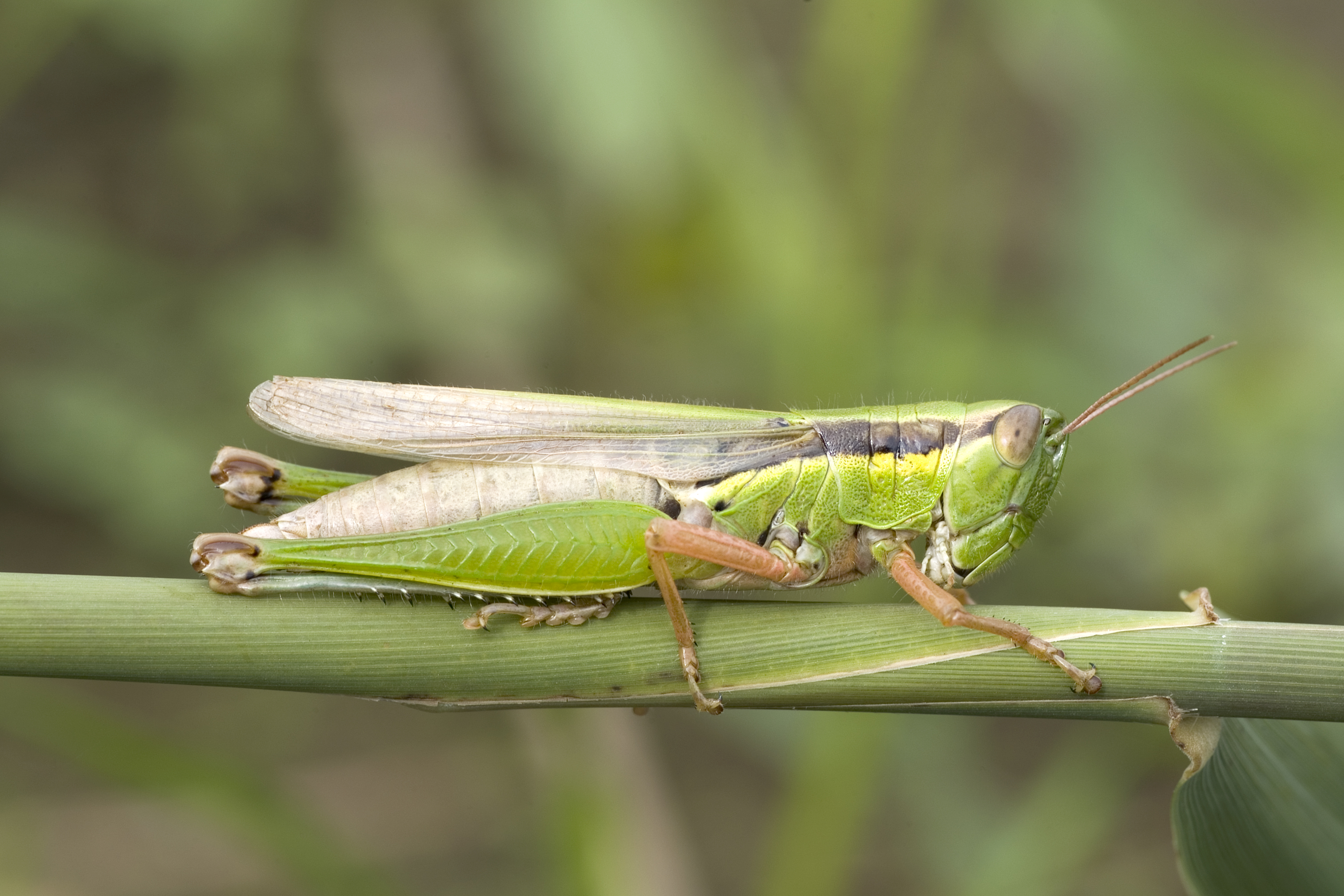 Locust (Oxya yezoensis)